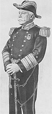 Admiral Dewey as illustrated in US Navy Uniform Regulations, 1913 edition.